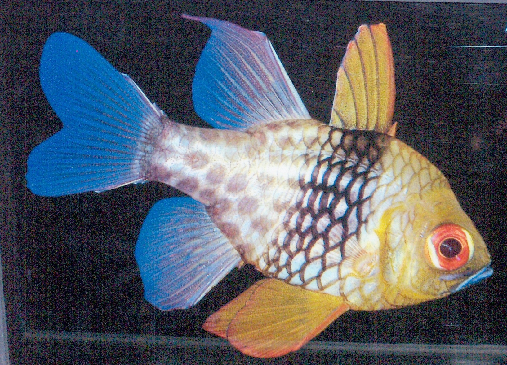 Pajama cardinalfish (Sphaeramia nematoptera ); Musée Océanographique de Monaco